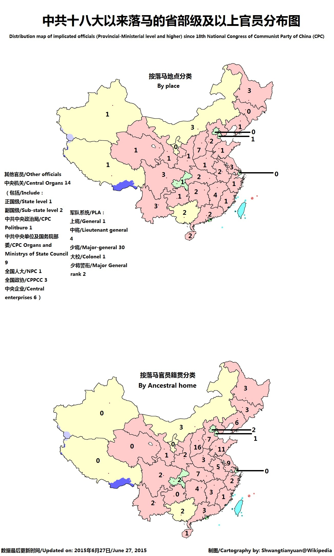 A distribution map of implicated officials (Provincial-Ministerial level and higher) since 18th National Congress of the Communist Party of China (CPC, by place and ancestral home).中文（中国大陆）: 中共十八大以来落马的省部级及以上官员分布图（两图：按落马地点分类和按落马官员籍贯分类）。